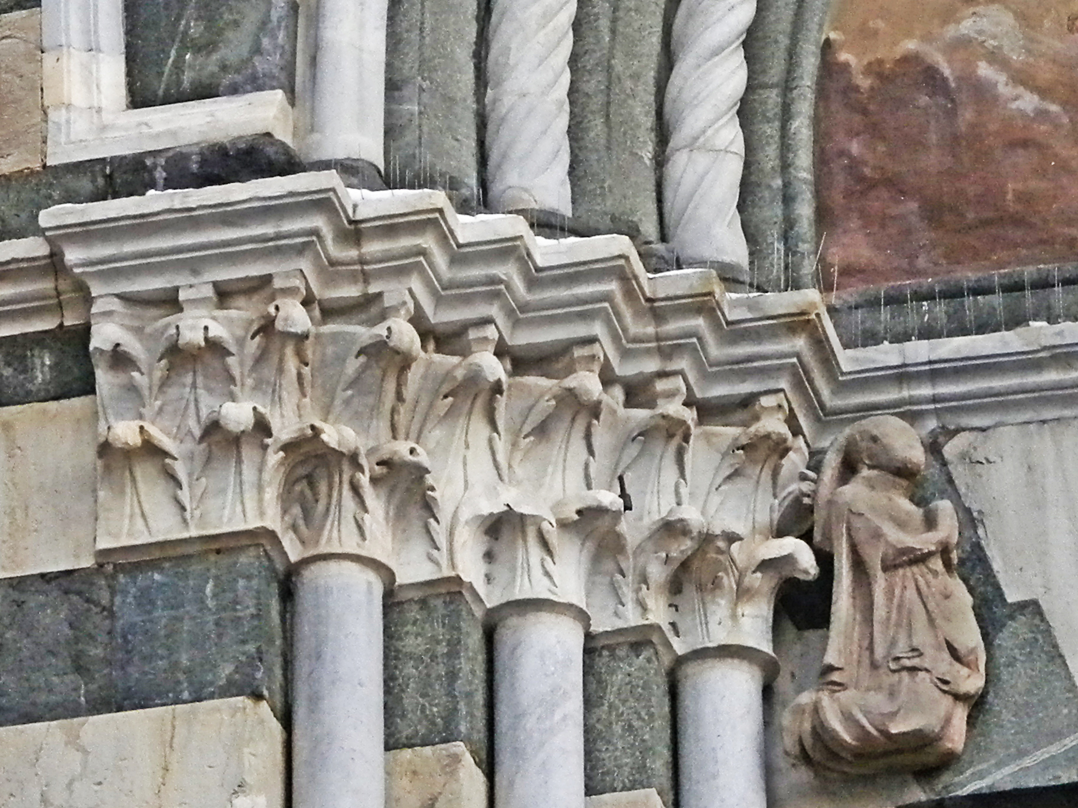 entrance particular